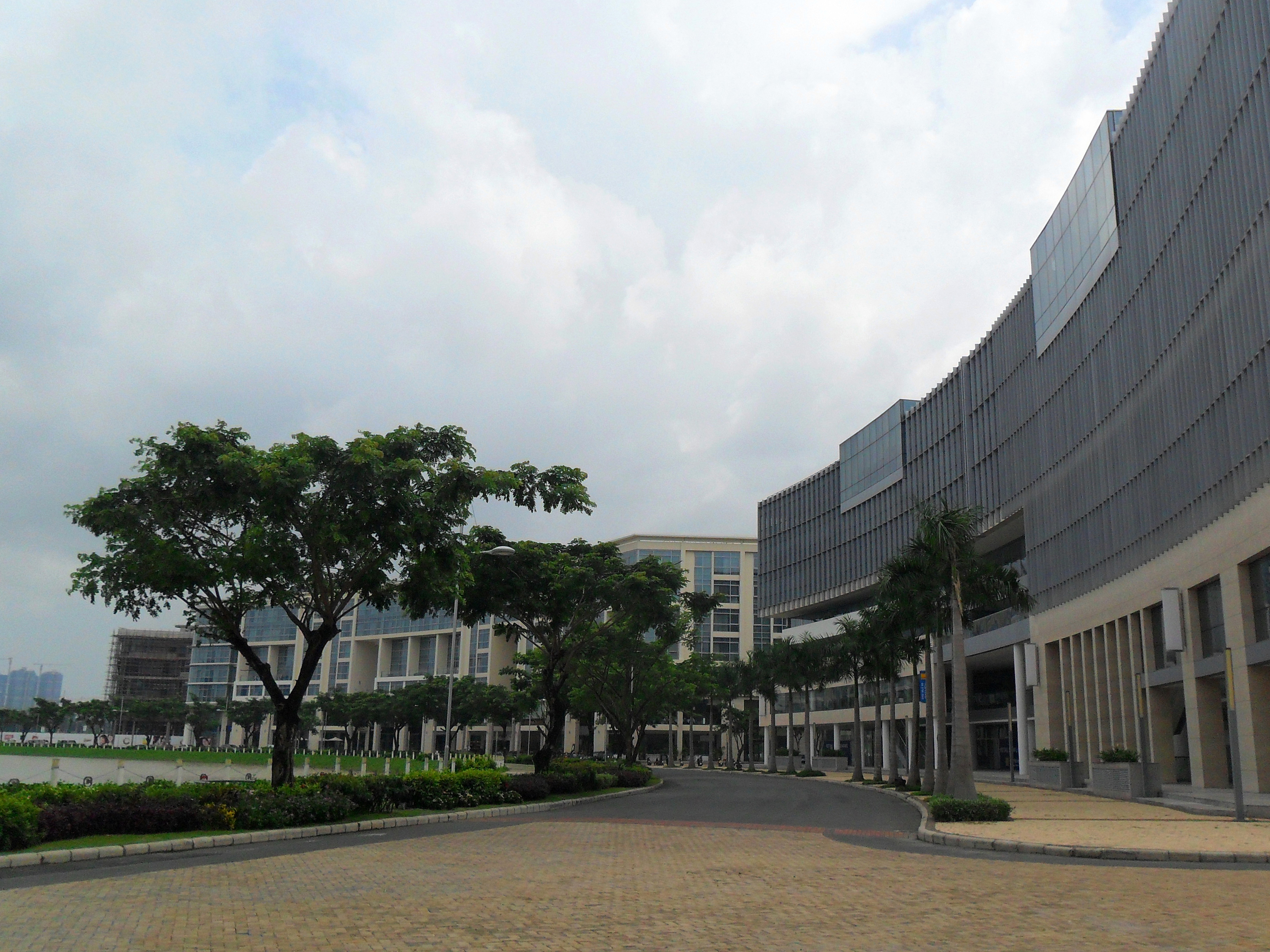 A view of Phu My Hung urban area in Ho Chi Minh City, Vietnam.